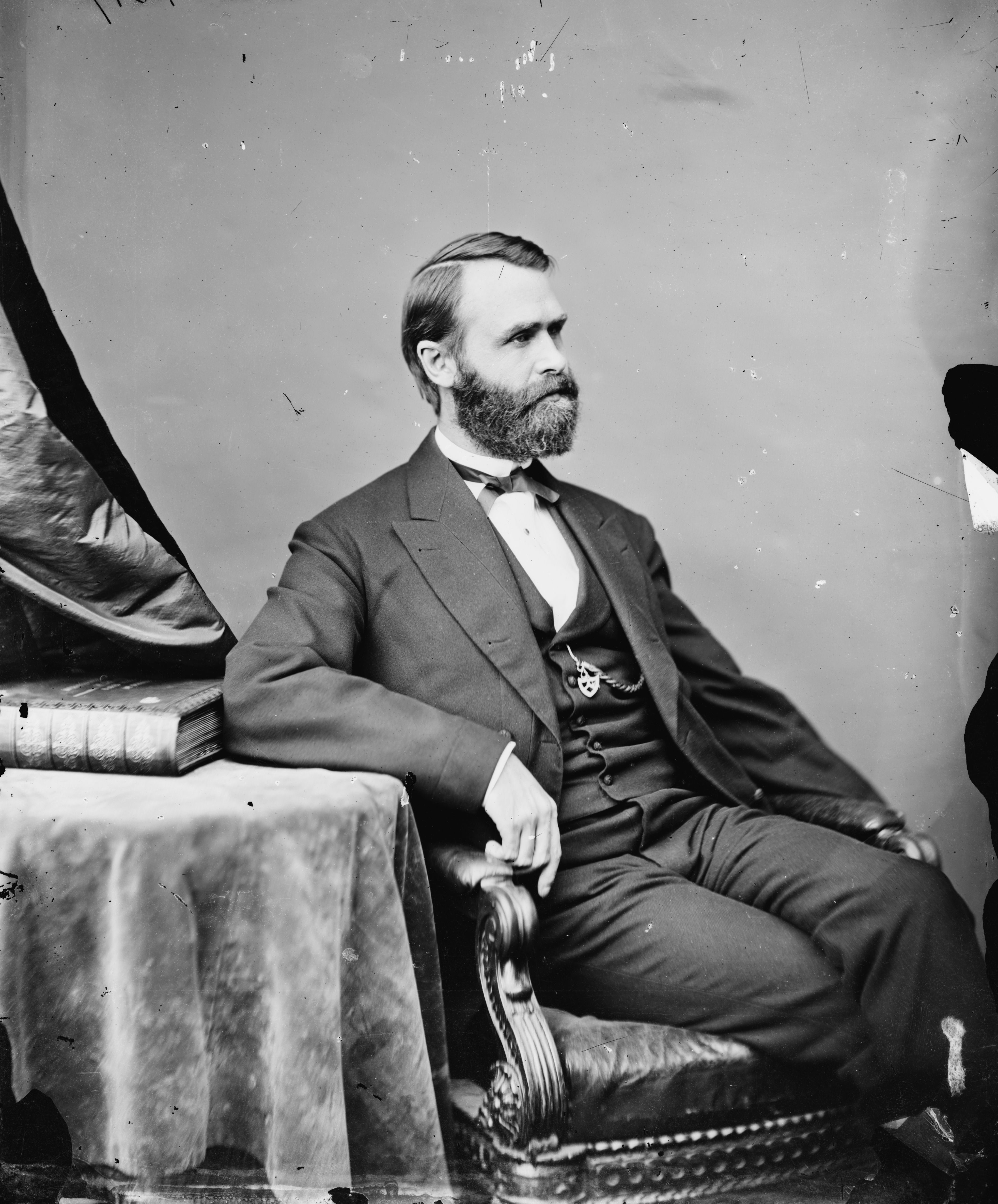 Hon. Jacob D. Cox of Ohio